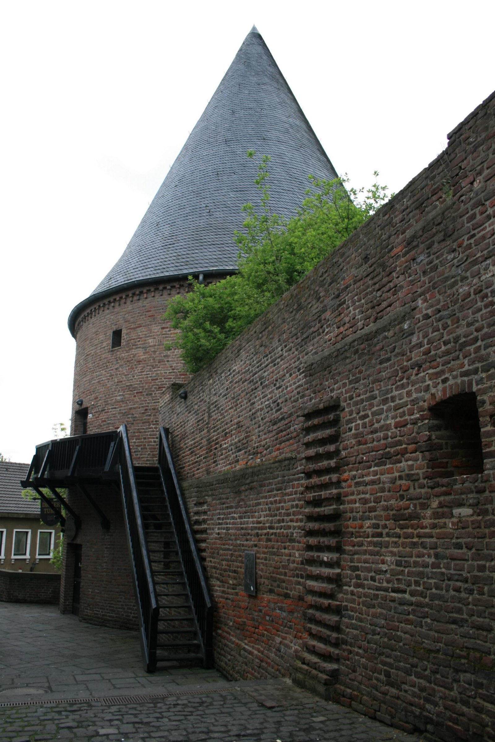 Cultural heritage monument No. T 011 in Mönchengladbach